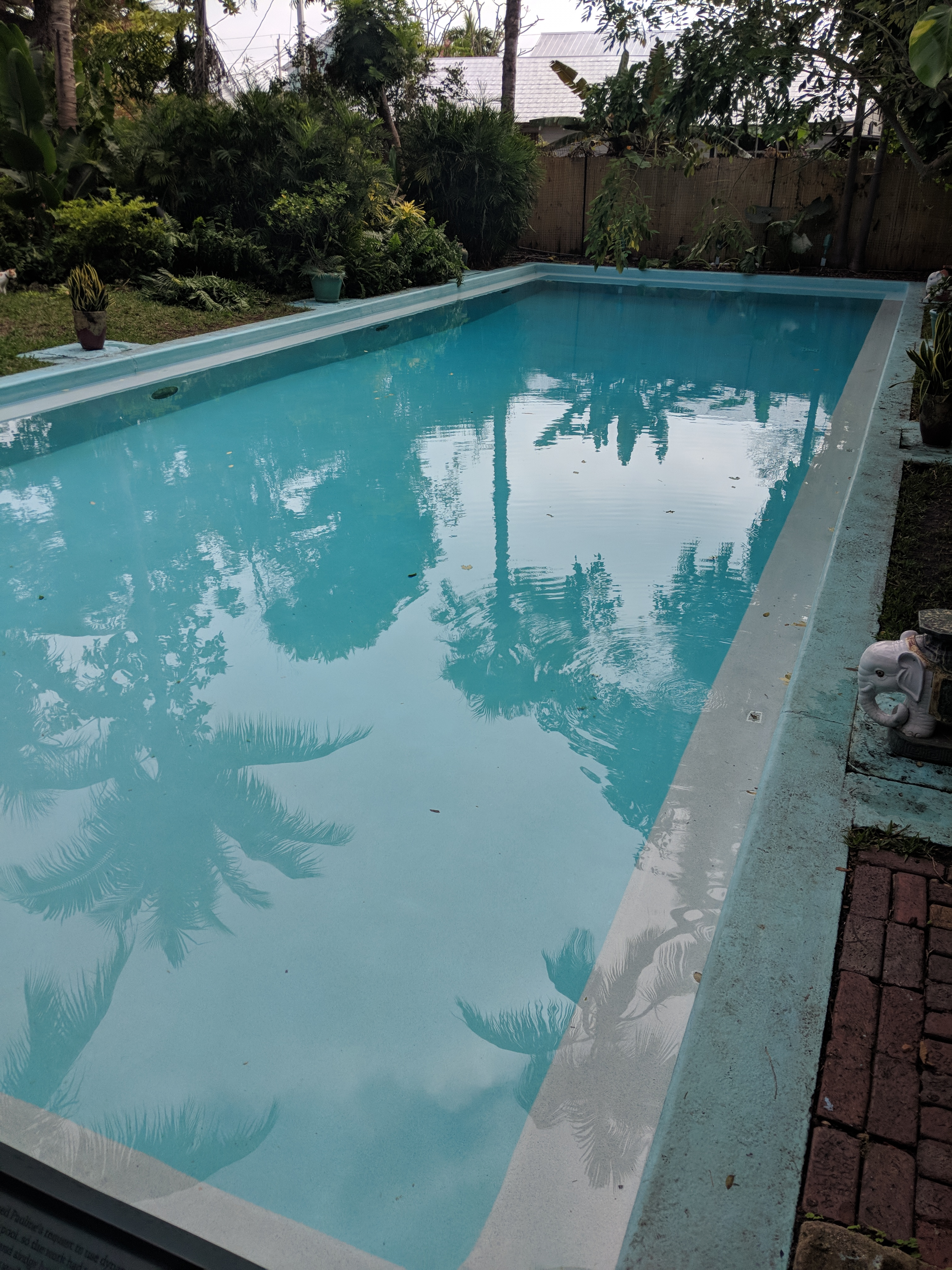 The swimming pool at Ernest Hemingway's home in Key West, Florida. Photo by Jim Heaphy.